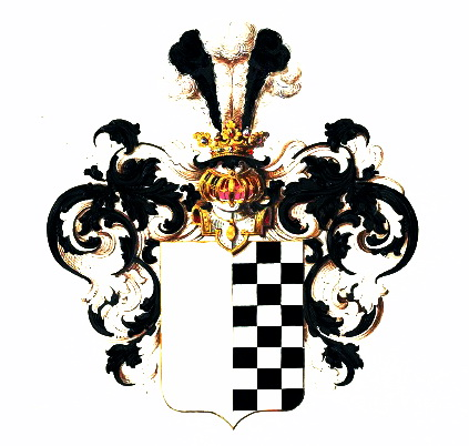 Coat of Arms of Piasecki family